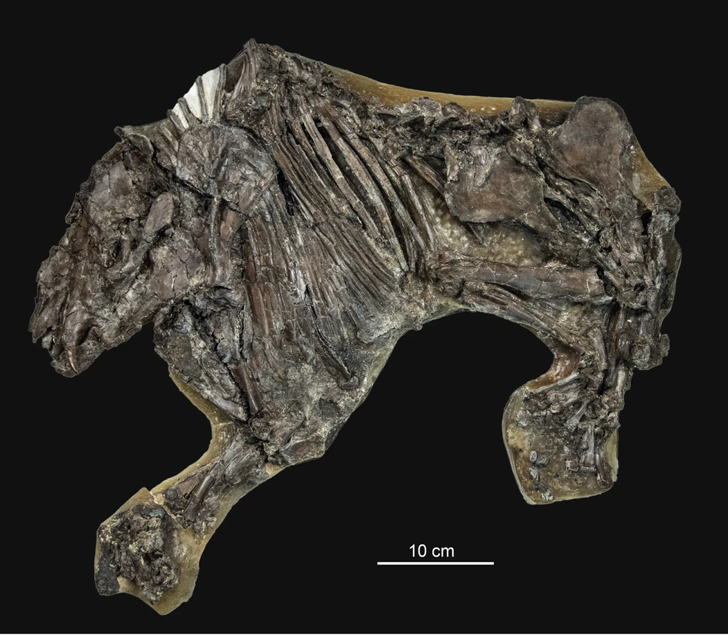 Propalaeotherium, Skeleton of Propalaeotherium isselanum (GMH Ce IV-7011-1933) from the Geisel Valley, Saxony-Anhalt, Germany, Middle Eocene